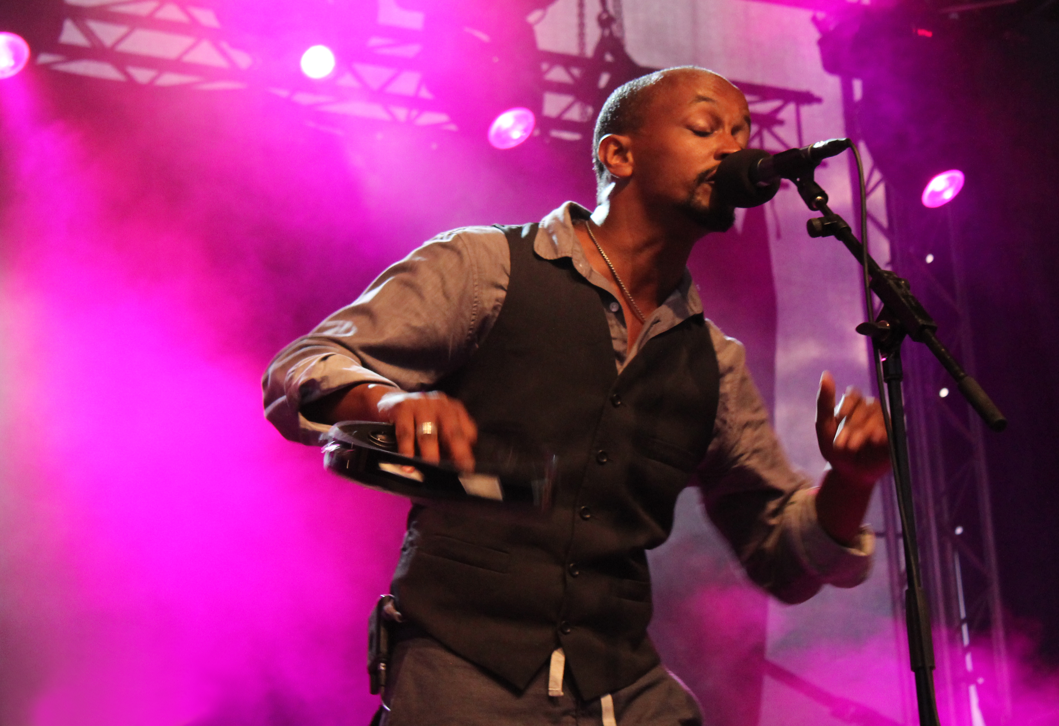 The Swedish artist Daniel Lemma 22nd World Scout Jamboree